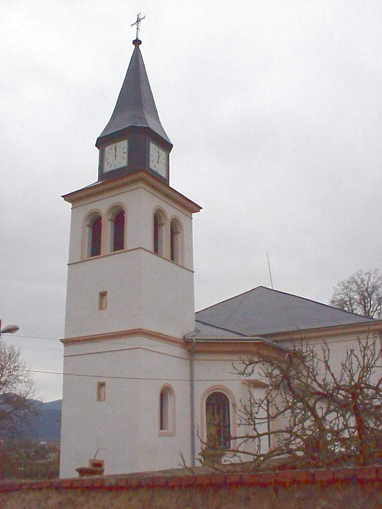 SS Simon and Jude church in Mojžíř (a part of Ústí nad Labem city, Czech Republic)